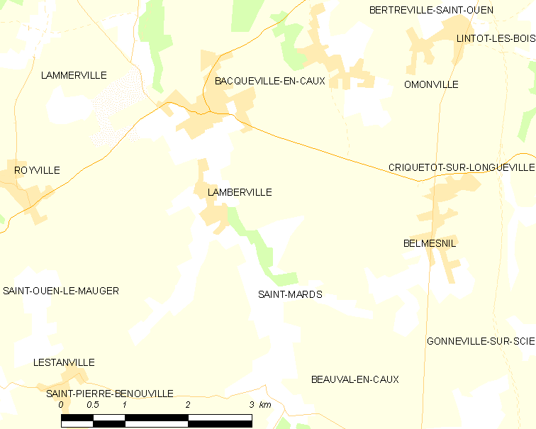 Map of French municipality Lamberville